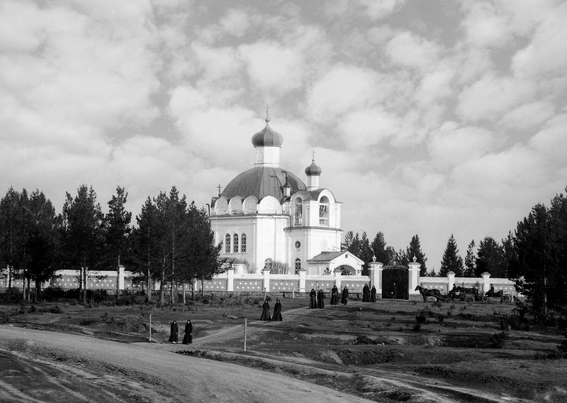 Temple of the Mother of God Joy of All Who Sorrow. Monastery Skorbjashchensky (Our Lady of All Who Sorrow) in Nizhny Tagil. Photos of the early twentieth century.